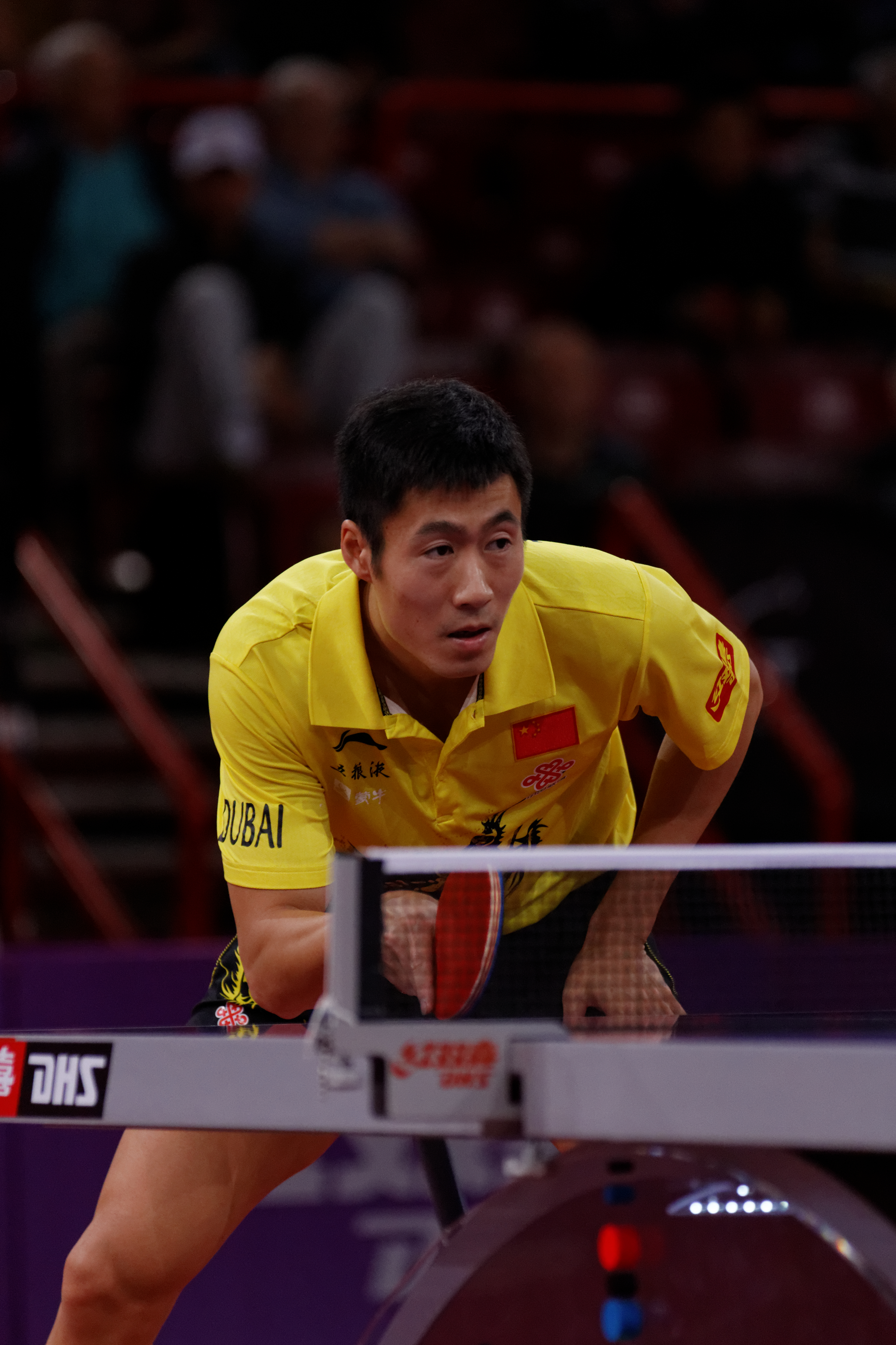 2013 World Table Tennis Championships, Paris. Mixed Doubles Semifinal. Lee Sang-Su and Park Young-Sook vs Wang Liqin and Rao Jingwen